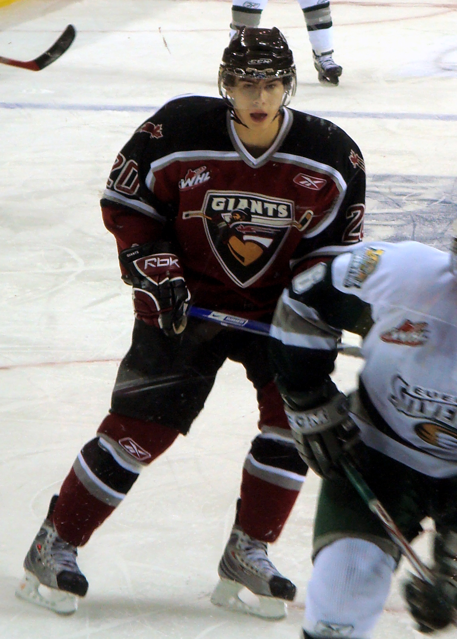 Mario Bliznak #20, Slovak ice hockey player of the Vancouver Giants, in a game vs. Everett Silvertips